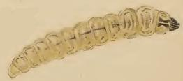 Stainton’s Natural History of the Tineina (1855–1873): Elachista freyerella